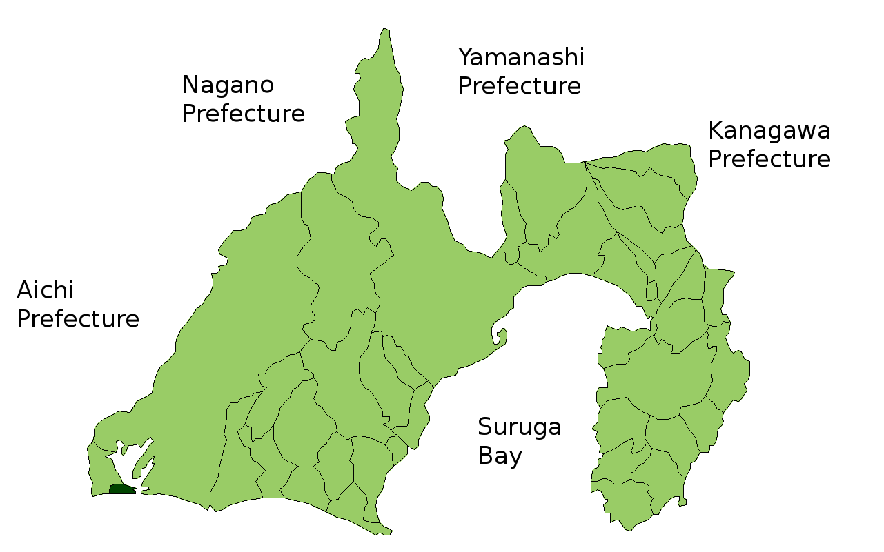 The location of Arai in Shizuoka Prefecture, Japan